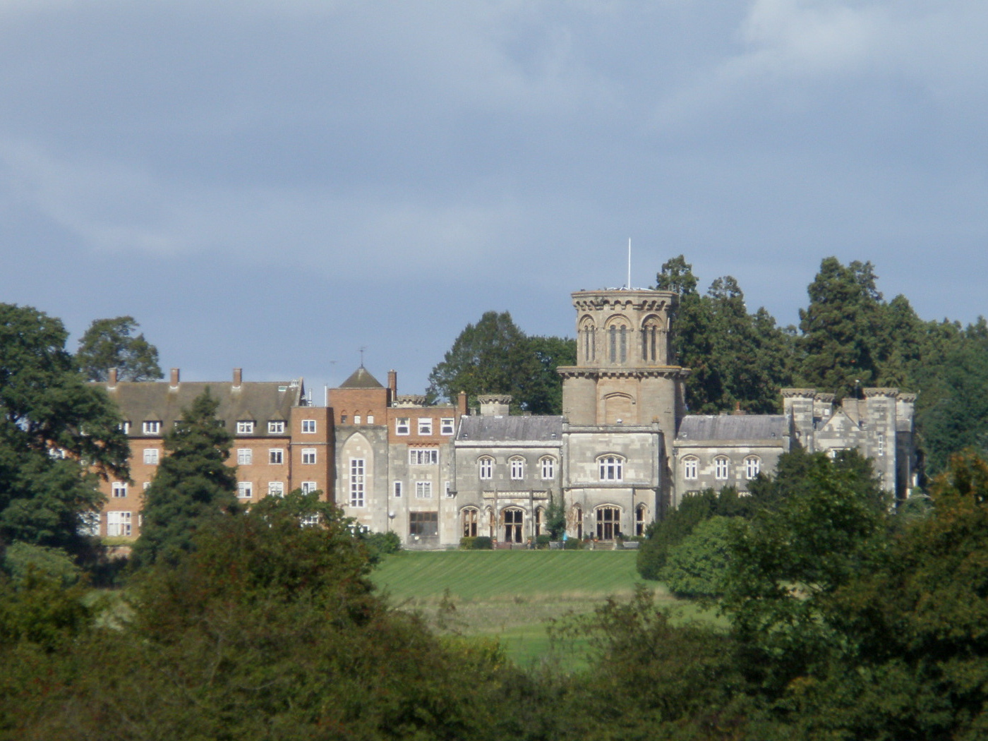 The Forest of Arden Agricultural Society 62nd Hedging and Ploughing Match. St Giles Farm, Spernal, Studley, Warwickshire.